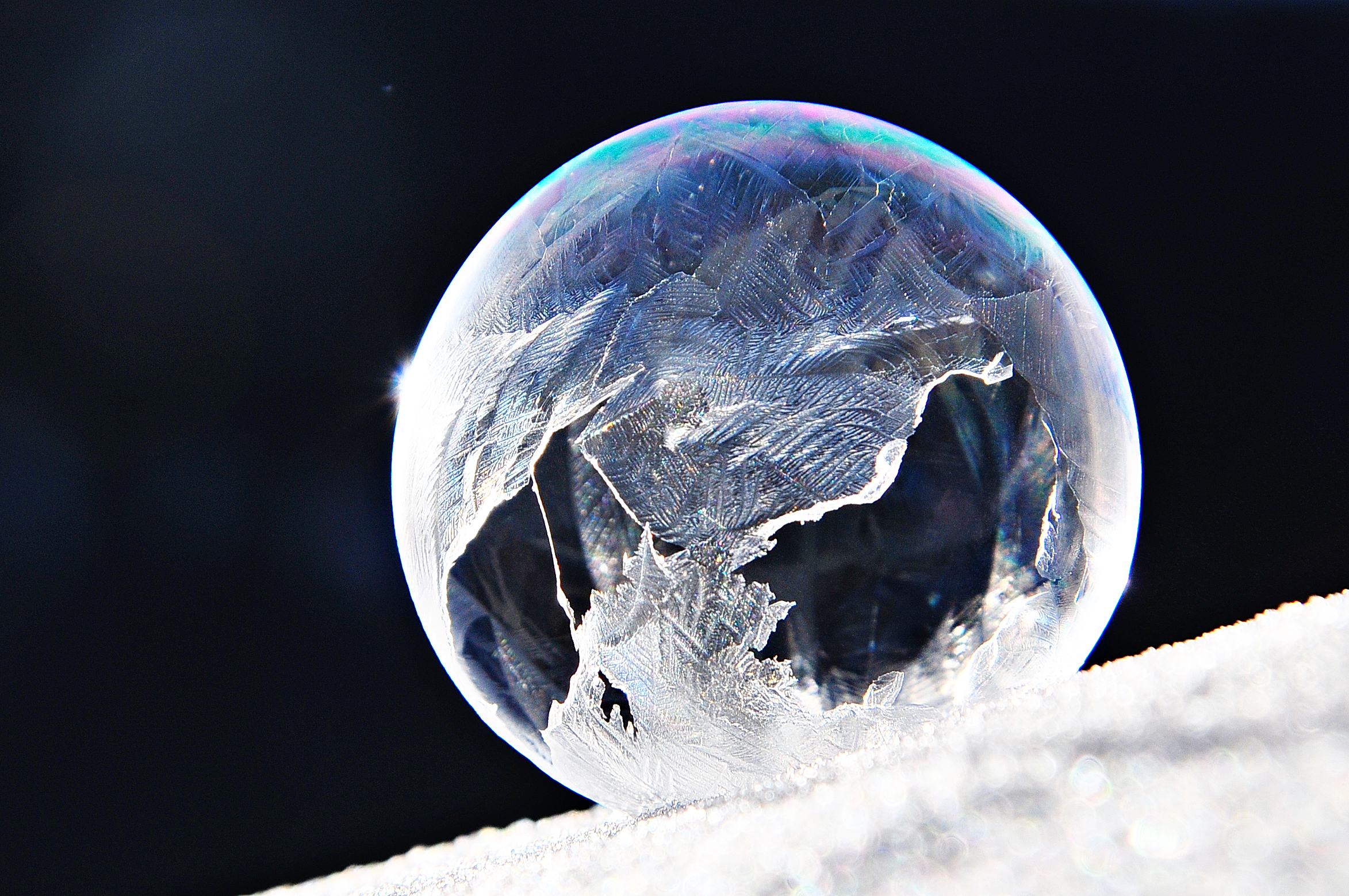 In this picture, a soap bubble was carefully placed on the snow so that it did not burst. The cold outside temperature (-7 ° C), the bubble froze and formed ice crystals. This has led to a change in the states of aggregation.